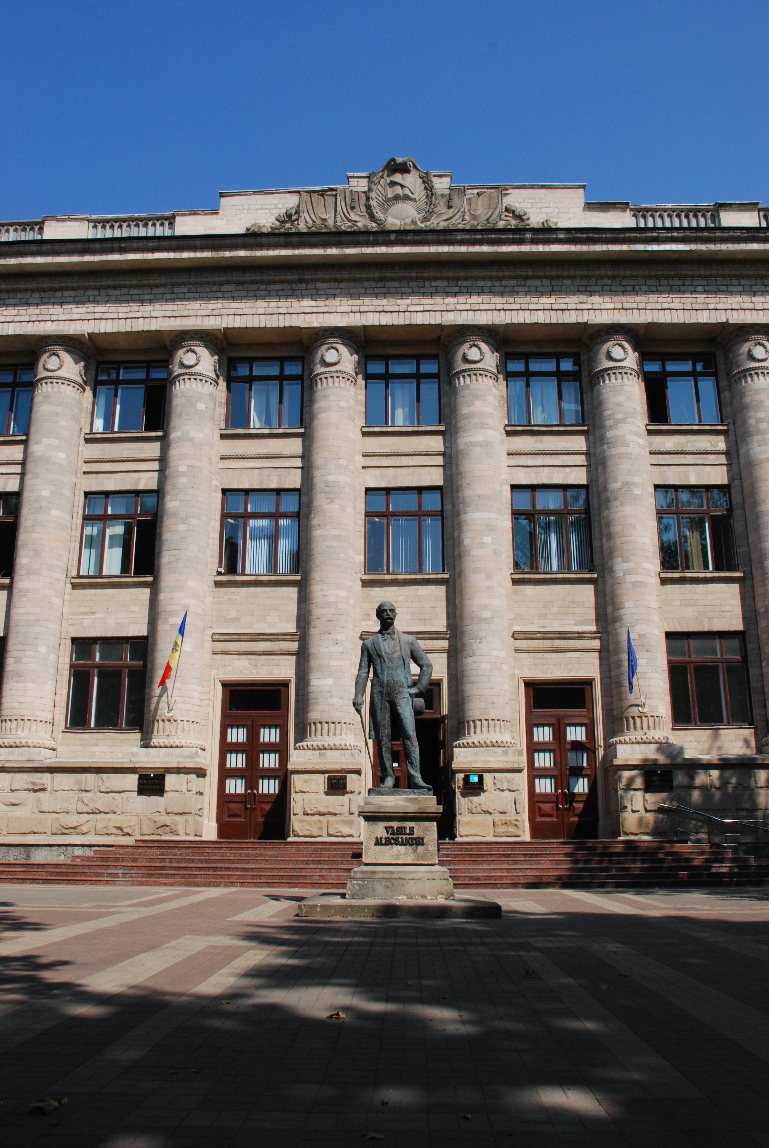 You are free to use this images under a Creative Commons license on condition you include a credit link to